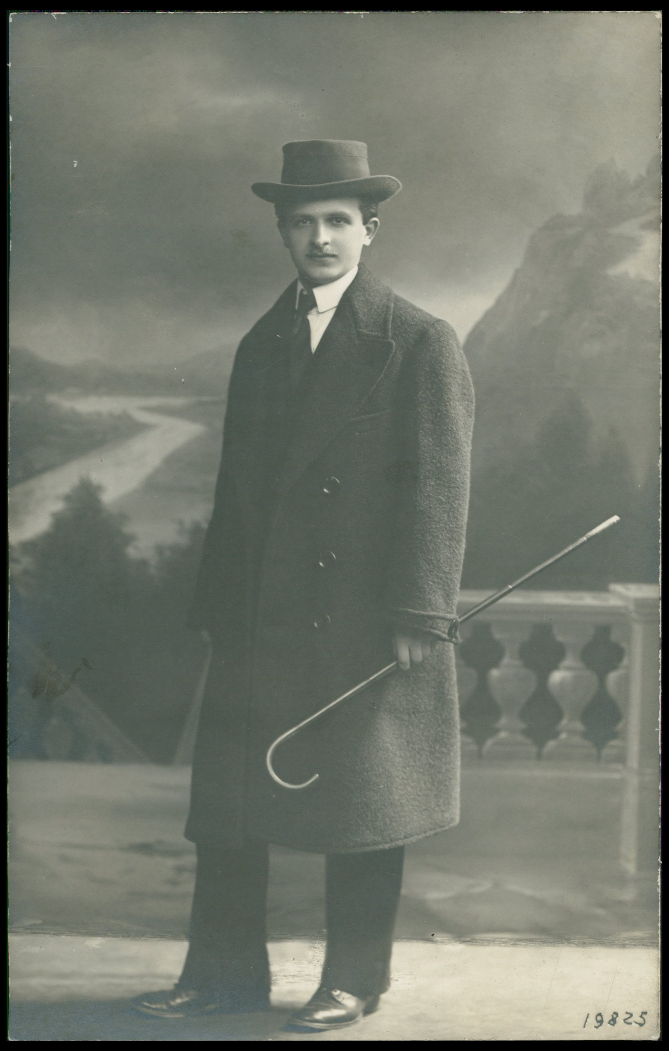 Portret Romualda Balaweldera z 1914 roku, wykonany przez Zakład Fotograficzny "Rivoli" we Lwowie. Znajduje się domenie publicznej, dostępny w zbiorach Biblioteki Narodowej (uid: 42514519)